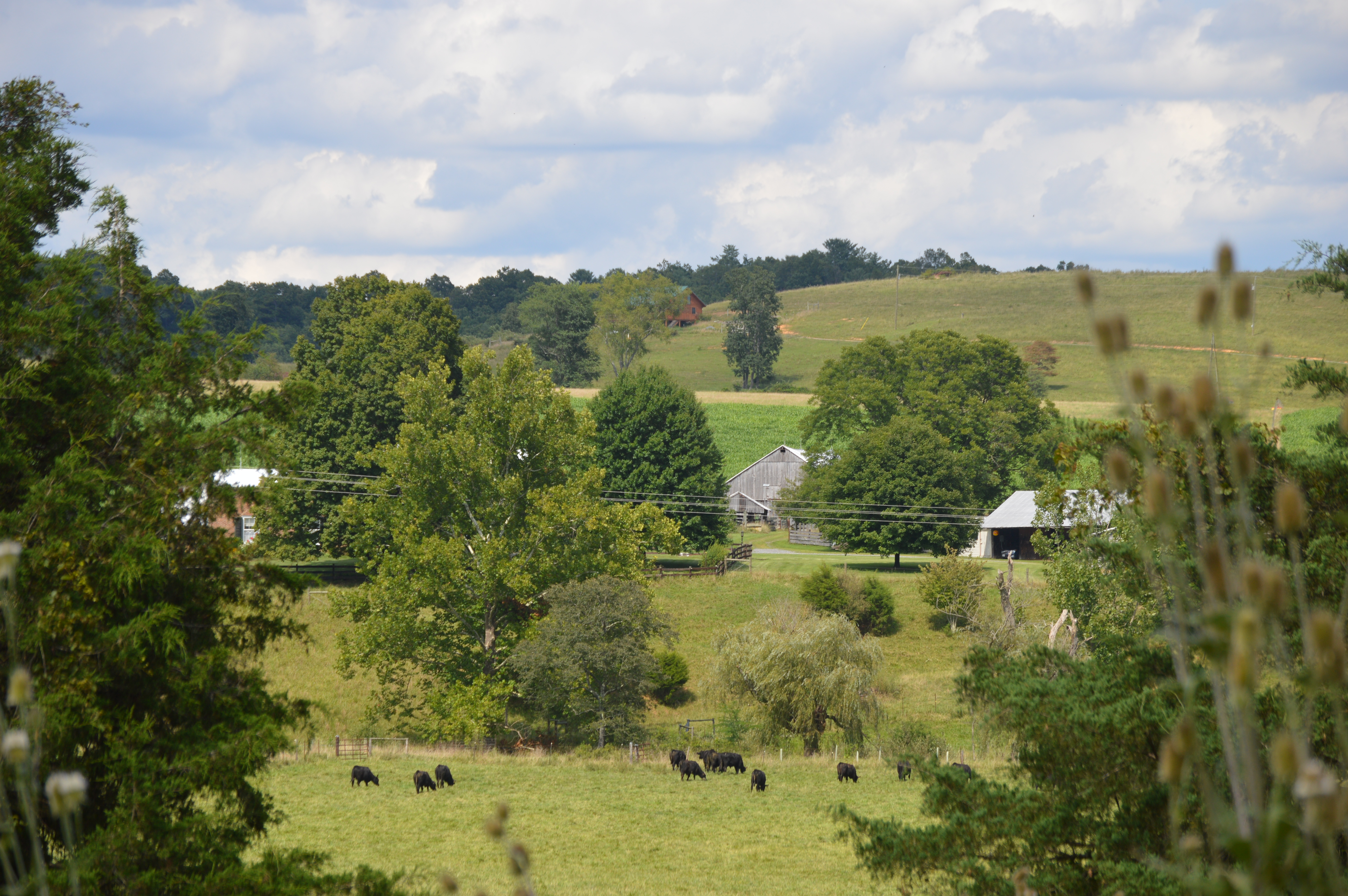 Distant view from the southwest (from Interstate 64) of Mountain View Farm, located on Fredericksburg Road northwest of Lexington in Rockbridge County, Virginia, United States. Built in 1854, it is listed on the National Register of Historic Places.